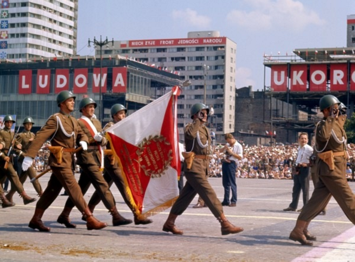 Soldiers of the Polish Army marching through Parade Square in Warsaw at the Millennial Anniversary Parade (1966).